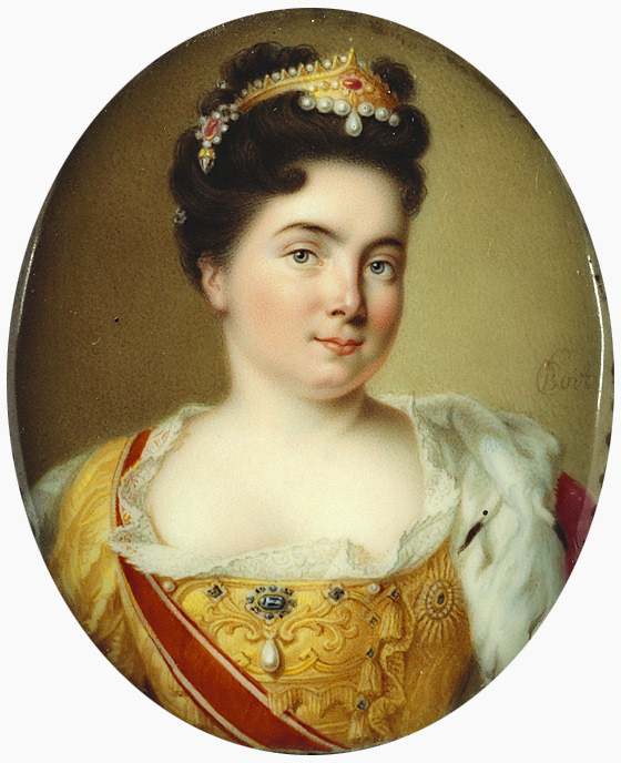 Catherine, Empress of Russia is shown in this signed enamel by Charles Boit, the leading European enamellist of the first quarter of the eighteenth century. The enamel is based on a portrait painted by Jean-Marc Nattier in 1717 (the Hermitage, St Petersburg) and must have been copied on the orders of Peter the Great during his visit to Paris in that year. Boit enjoyed a successful reputation having worked as Court Enamellist in England from 1696 until 1714 and then found favour at the French court with patrons such as Philippe, duc d'Orléans (1674-1723). The Empress is shown her wearing an embroidered gold dress, an ermine-lined crimson robe and the red sash of the Order of St Catherine.